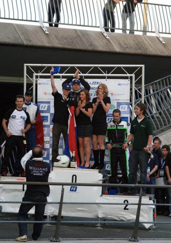 Greenchoice Forze on the stage after winning first place in Rotterdam "zero emission" hydrogen racing championship.